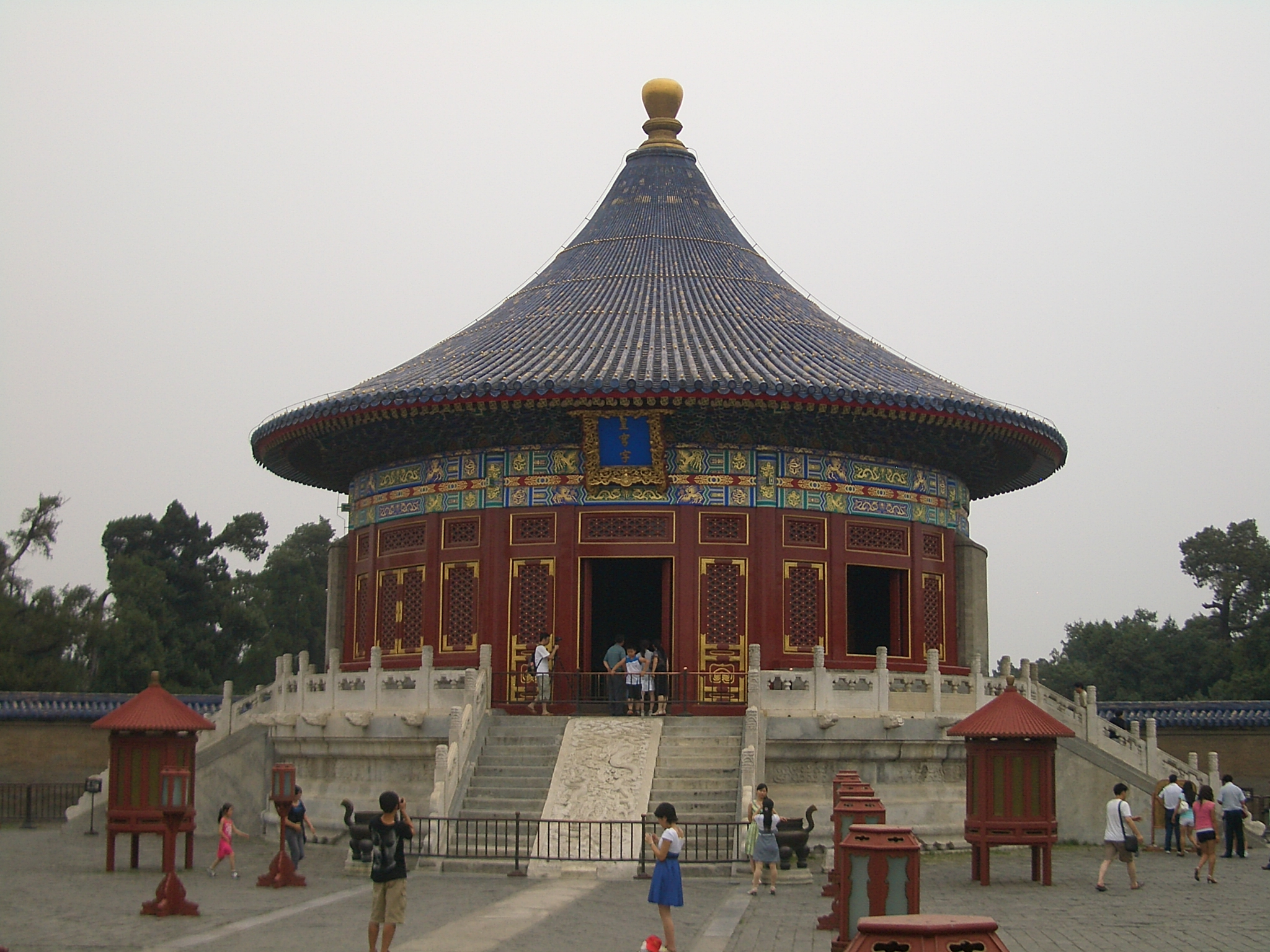 The Imperial Vault of Heaven (皇穹宇) within the Temple of Heaven grounds.